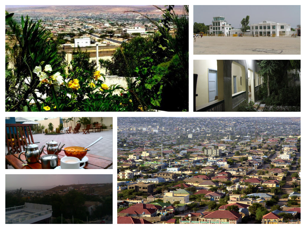 Montage of places in Hargeisa, Somalia.